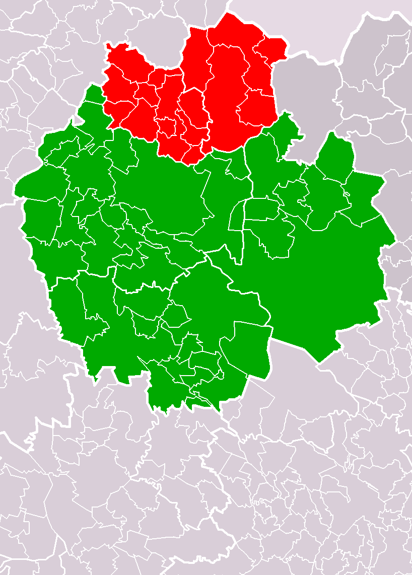 Administrative areas of municipalities with extended competence within Česká Lípa District as of January 1, 2007: MEC Česká Lípa MEC Nový Bor